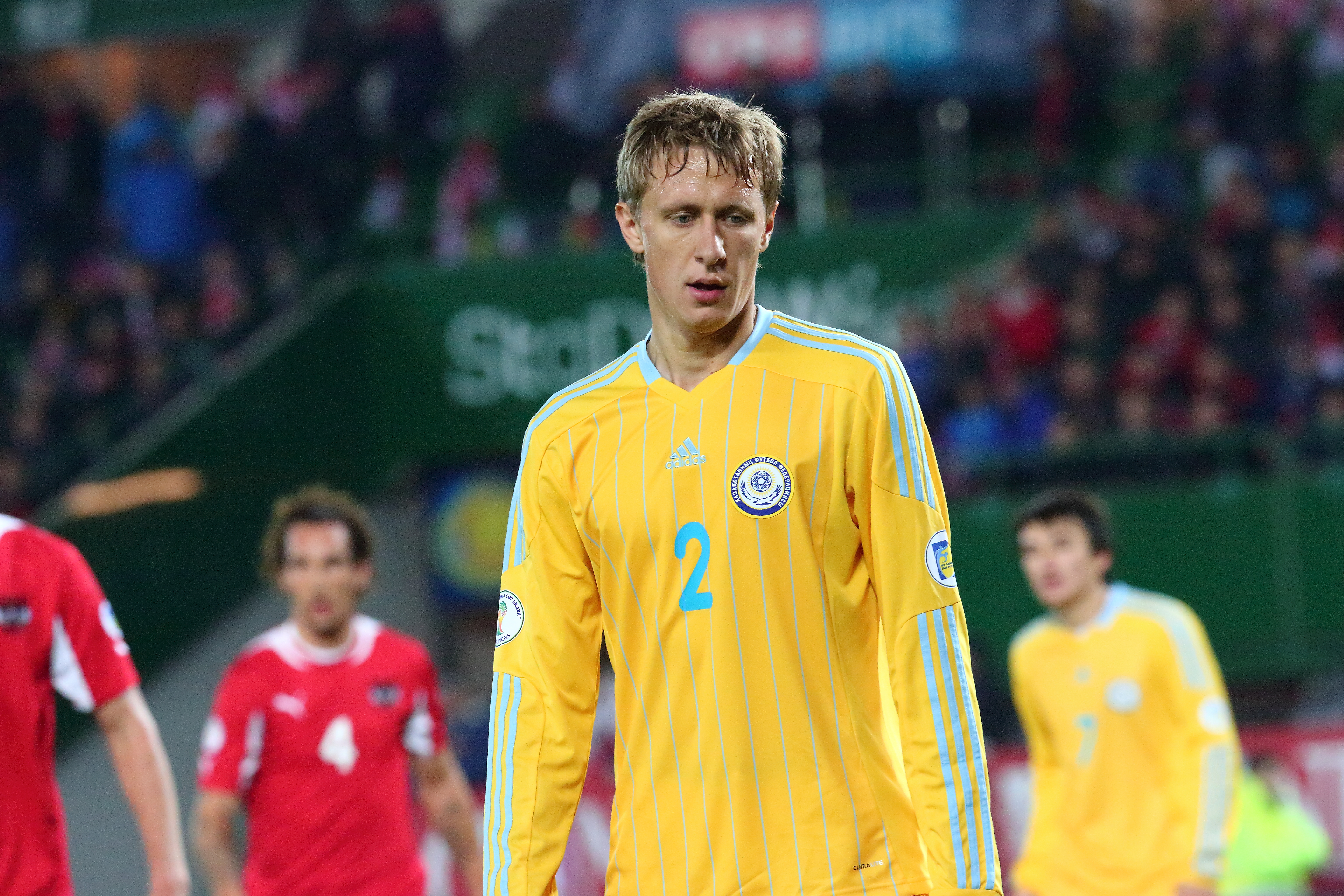 Aleksandr Kirov, 16.10.12, Austria-Kazakhstan